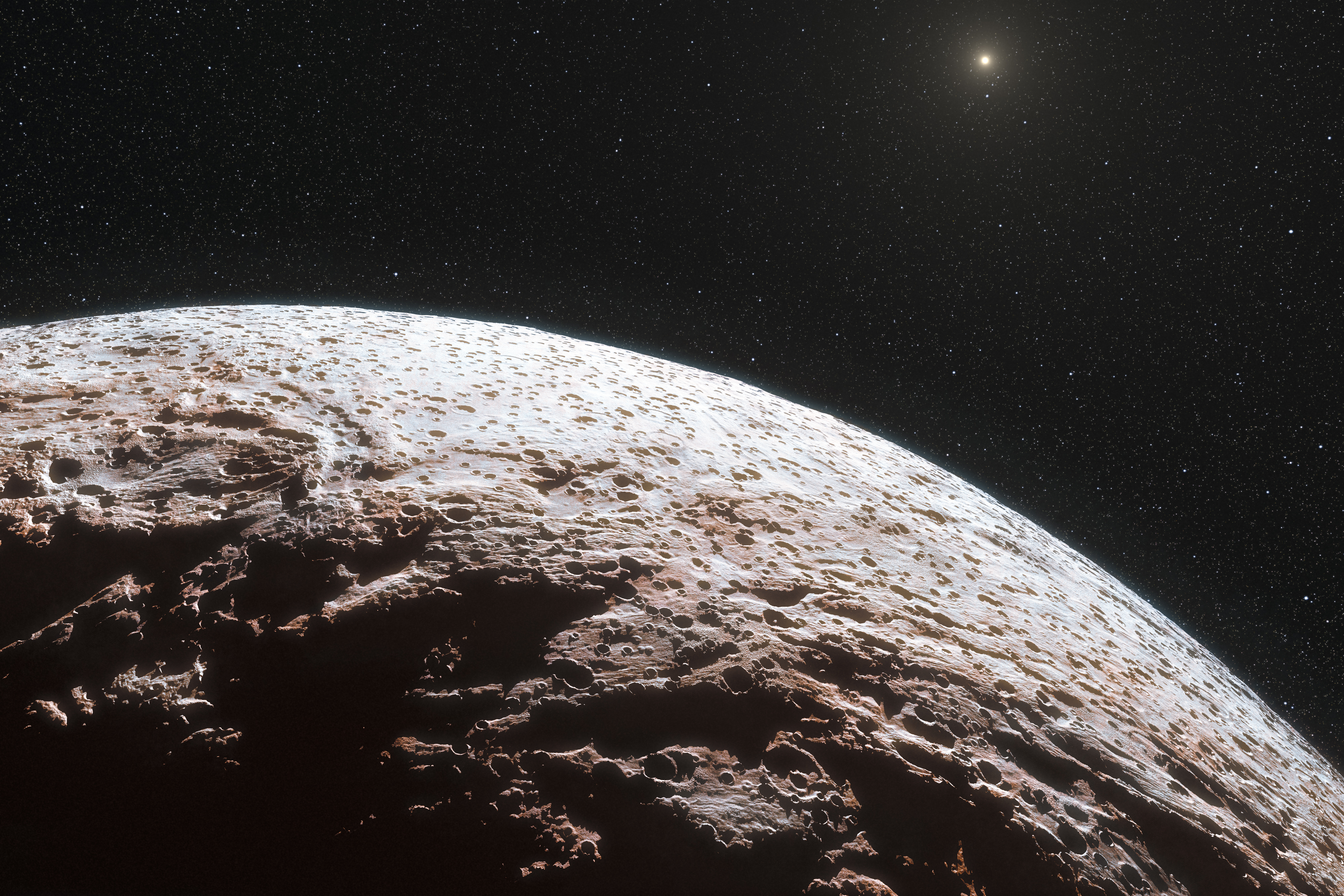 This artist’s impression shows the surface of the distant dwarf planet Makemake. This dwarf planet is about two thirds of the size of Pluto, and travels around the Sun in a distant path that lies beyond that of Pluto, but closer to the Sun than Eris, the most massive known dwarf planet in the Solar System. Makemake was expected to have an atmosphere like Pluto, but this has now been shown to not be the case. Makemake is one of the largest objects known in the outer Solar System. Pronounced MAH-kay MAH-kay, this Kuiper belt object is about two-thirds the size of Pluto, orbits the Sun only slightly further out than Pluto, and appears only slightly dimmer than Pluto. Makemake, however, has an orbit much more tilted to the ecliptic plane of the planets than Pluto. Discovered by a team led by Mike Brown (Caltech) in 2005, the outer Solar System orb was officially named Makemake for the creator of humanity in the Rapa Nui mythology of Easter Island. In 2008, Makemake was classified as a dwarf planet under the subcategory plutoid, making Makemake the third cataloged plutoid after Pluto and Eris. Makemake is known to be a world somewhat red in appearance, with colors indicating it is likely covered with patchy areas of frozen methane. No images of Makemake's surface yet exist, but an artist's illustration of the distant world is shown above. Careful monitoring of the brightness drop of a distant star recently eclipsed by Makemake indicates that the dwarf planet has little atmosphere.